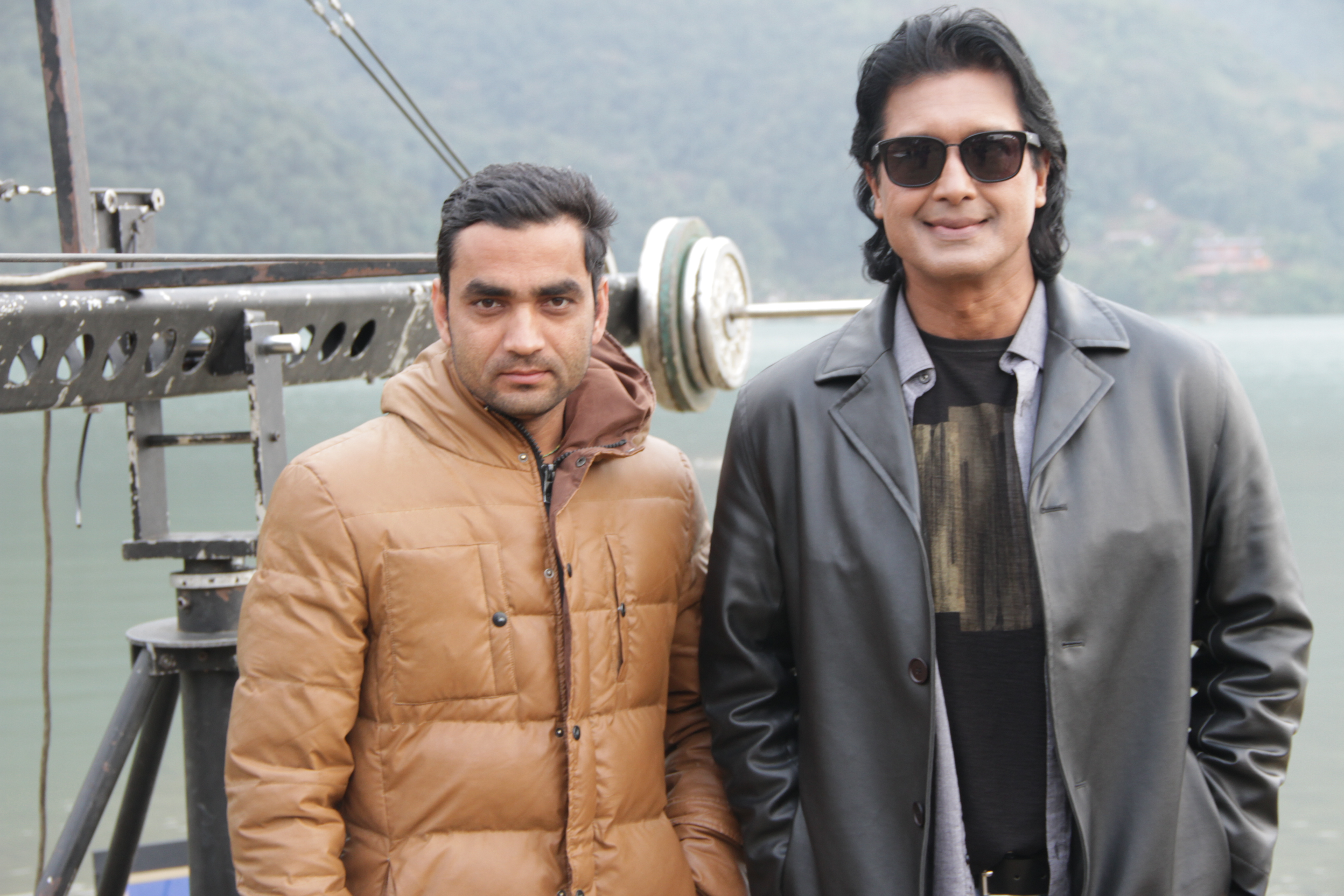 Rameshwor Karki with actor Rajesh Hamal at the shooting of Saurya.